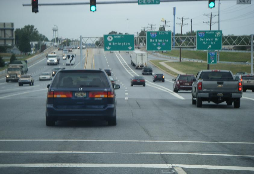 Northbound Delaware Route 9 (New Castle Avenue) at exit for northbound Interstate 295/eastbound U.S. Route 40 near New Castle, Delaware.